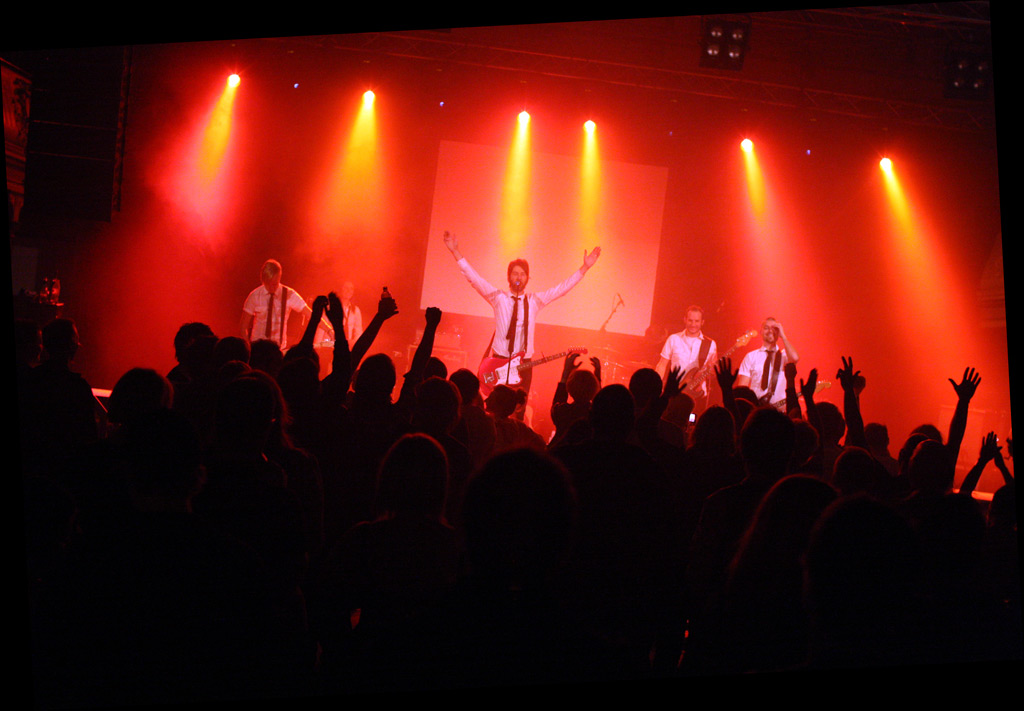 The Confusions, live at Love Up North - Sundsvall, Sweden.